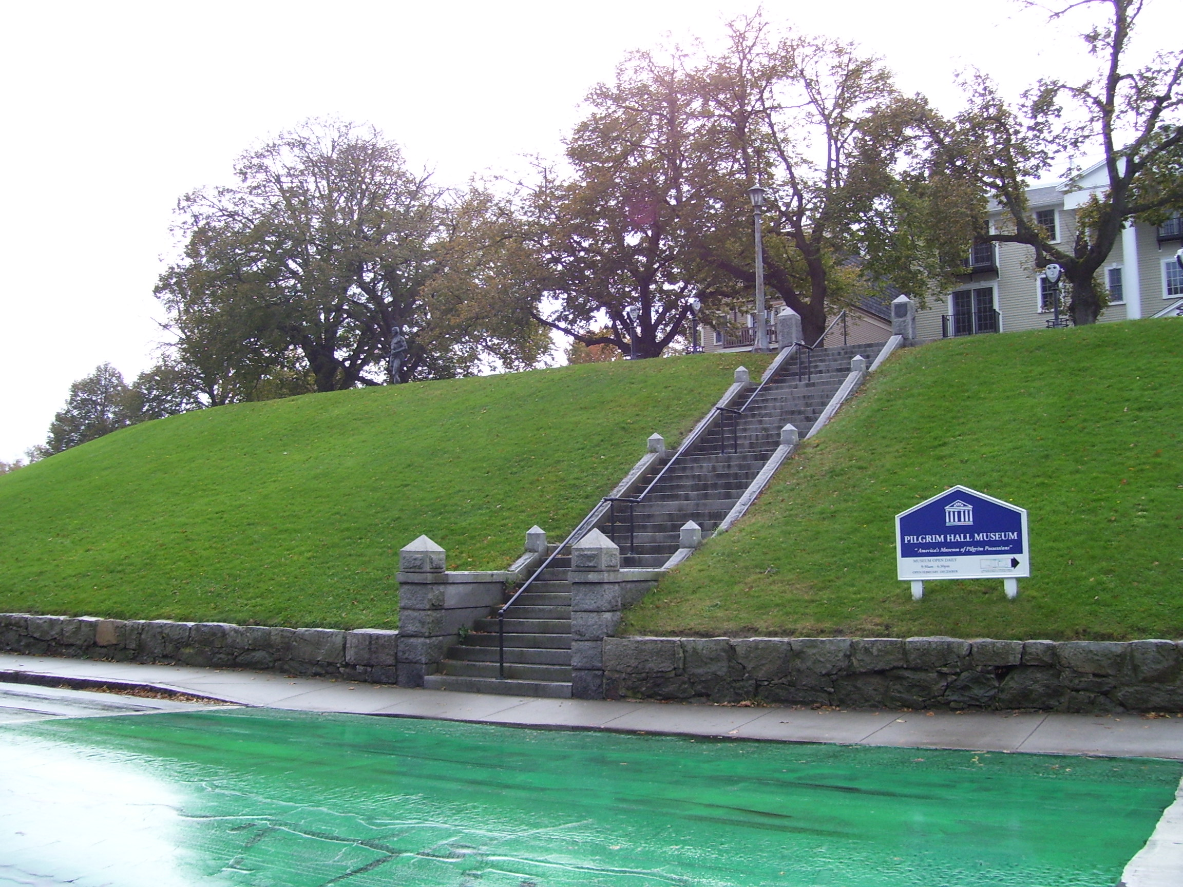 My 2009 photo of Cole's HIll in Plymouth, Massachusetts.